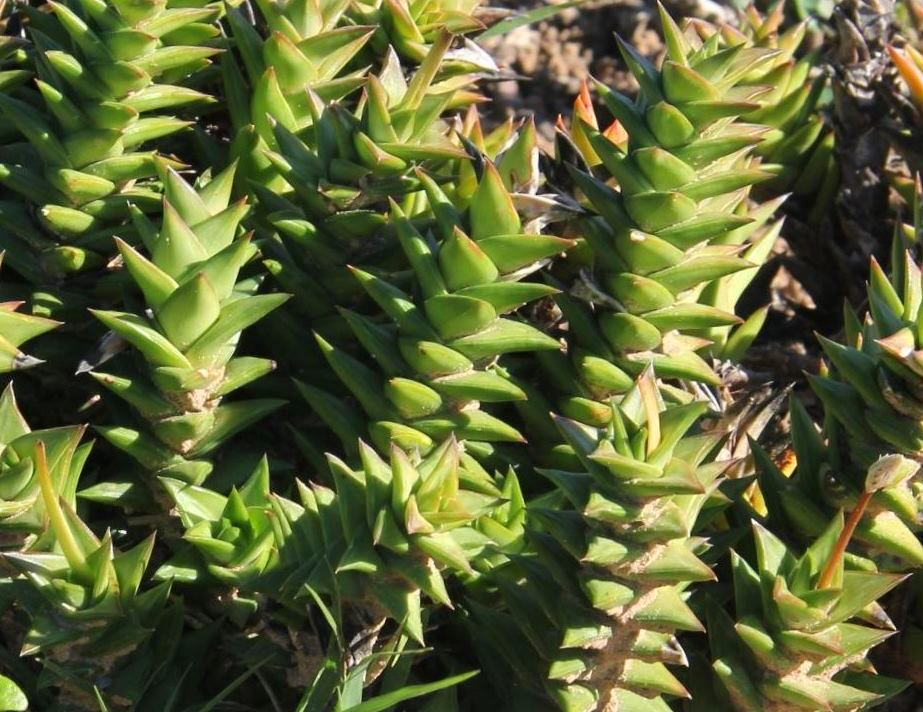 Astroloba congesta - Eastern Cape - JILE